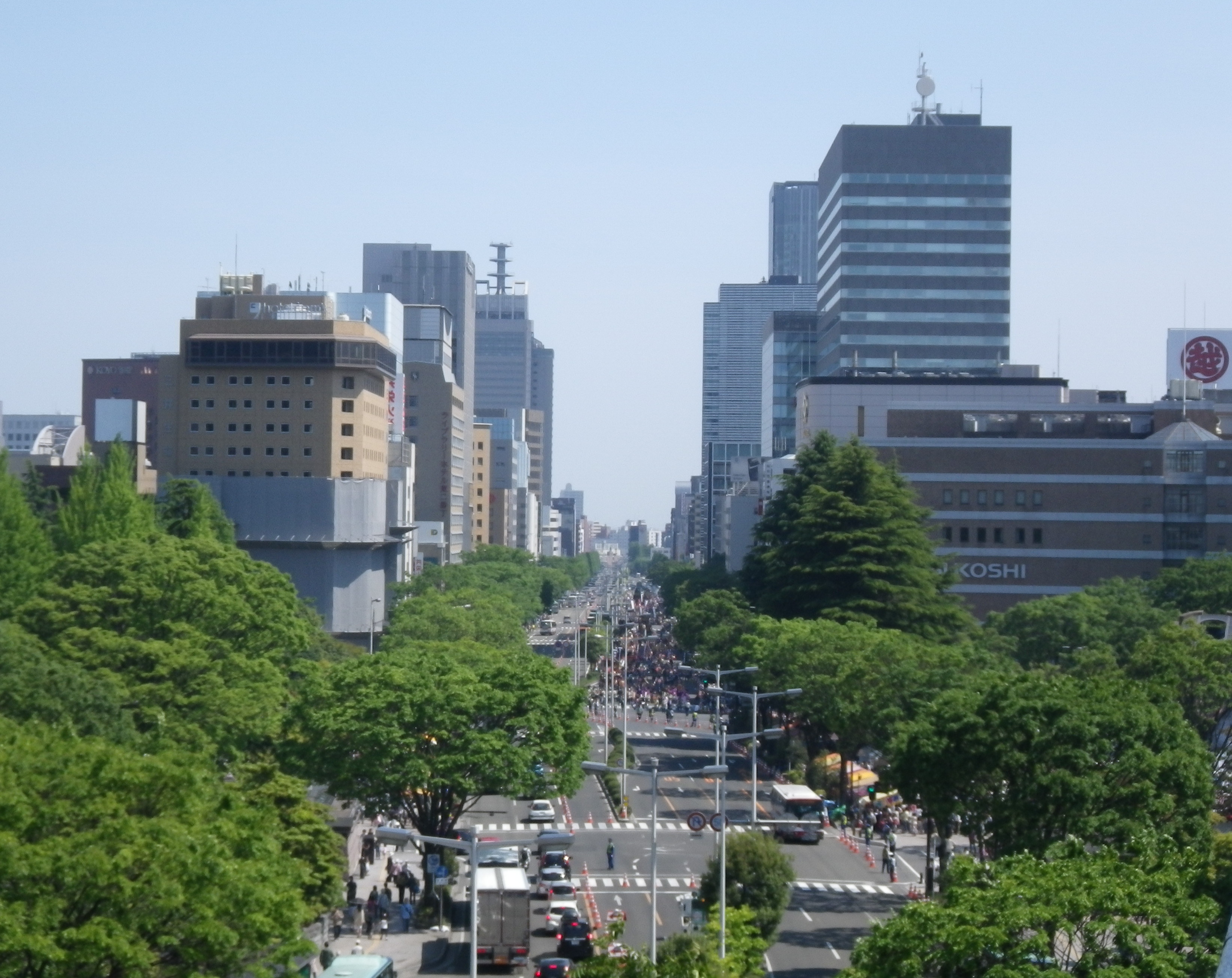 a parade of Sendai Aoba Matsuri held on Higashi-Ni-banchō-dōri avenue (the East 2nd avenue)